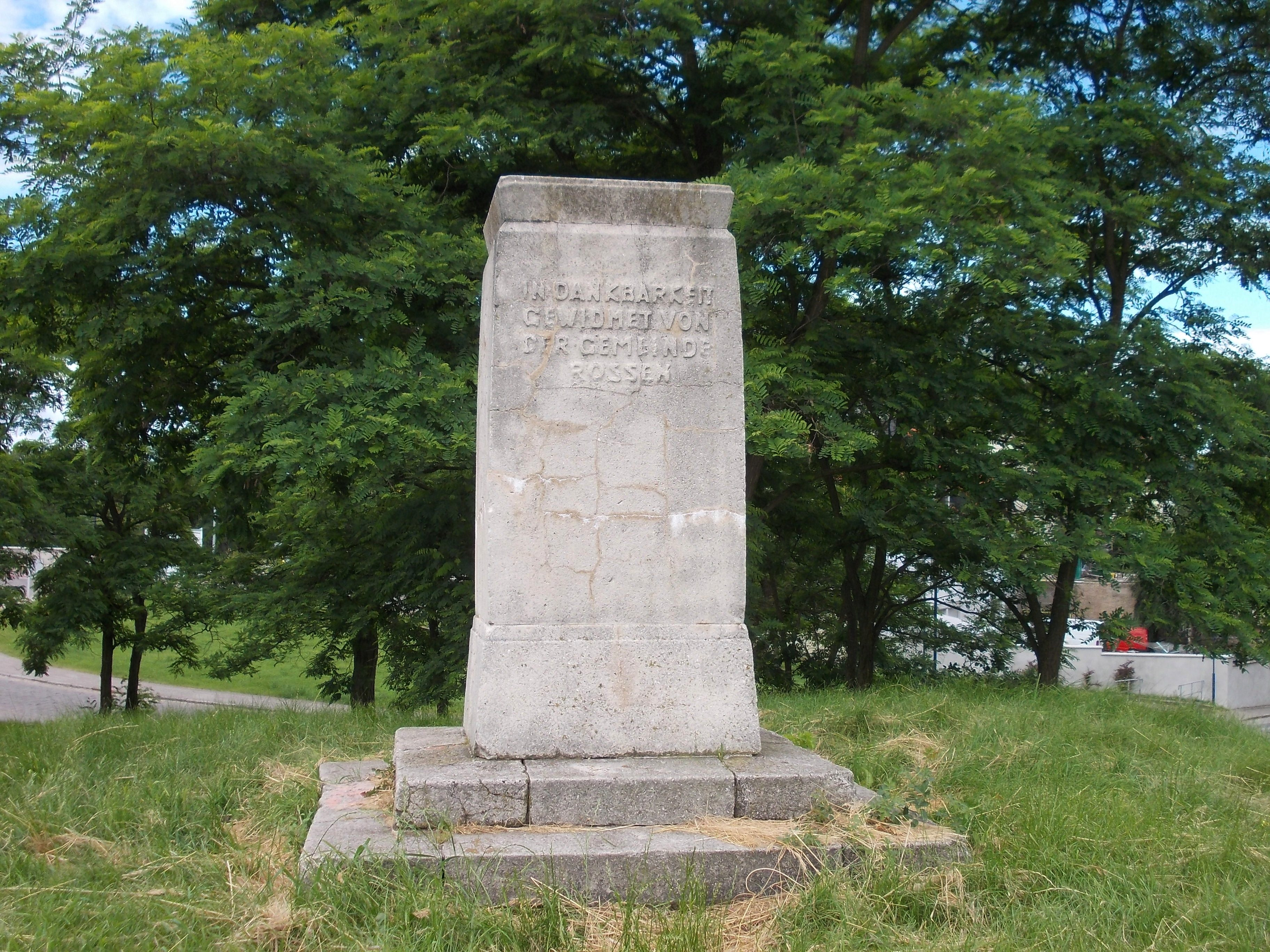 World War I memorial in Rössen (Leuna, district: Saalekreis, Saxony-Anhalt)